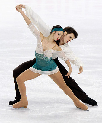 Stefania Berton and Ondřej Hotárek at the 2010 World Championships (FS).